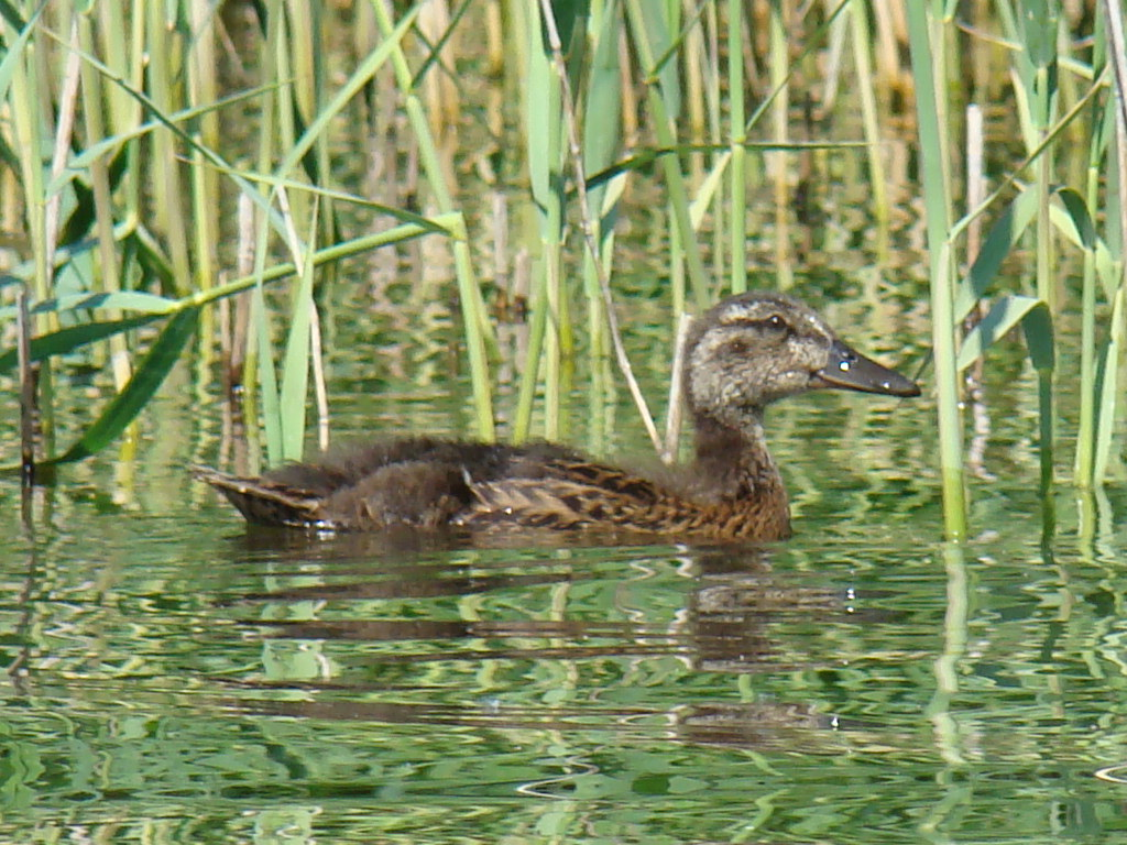 Photo of the Mallard juvenile (Anas platyrhynchos) in in Raizgiai, Siauliai, Lithuania.